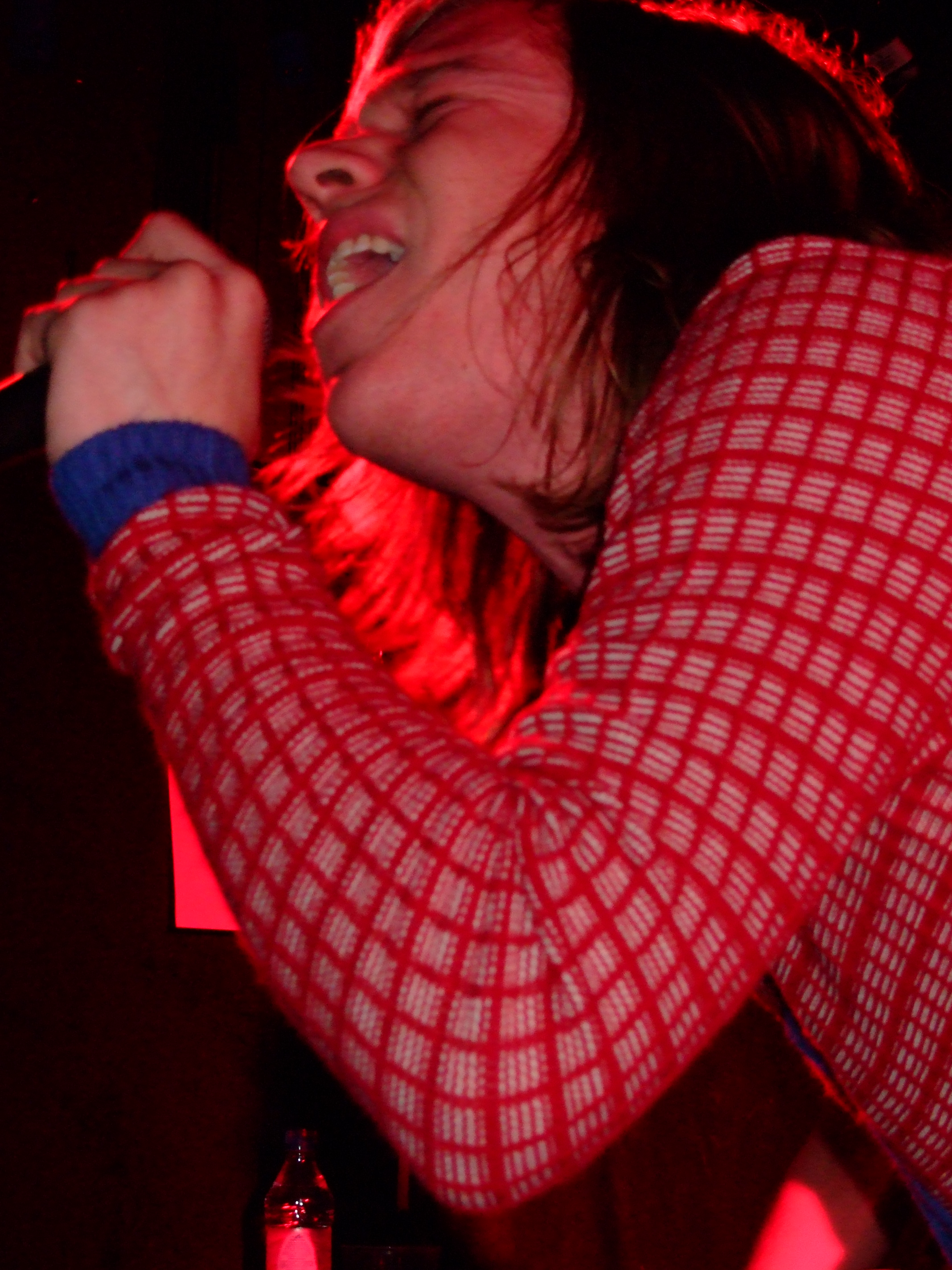 Performing at London Barfly as support for Ida Maria